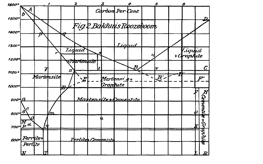 Roozeboom's diagram after H.W.B. Reozeboom, The Metallographist, 3, 293-300(1900).